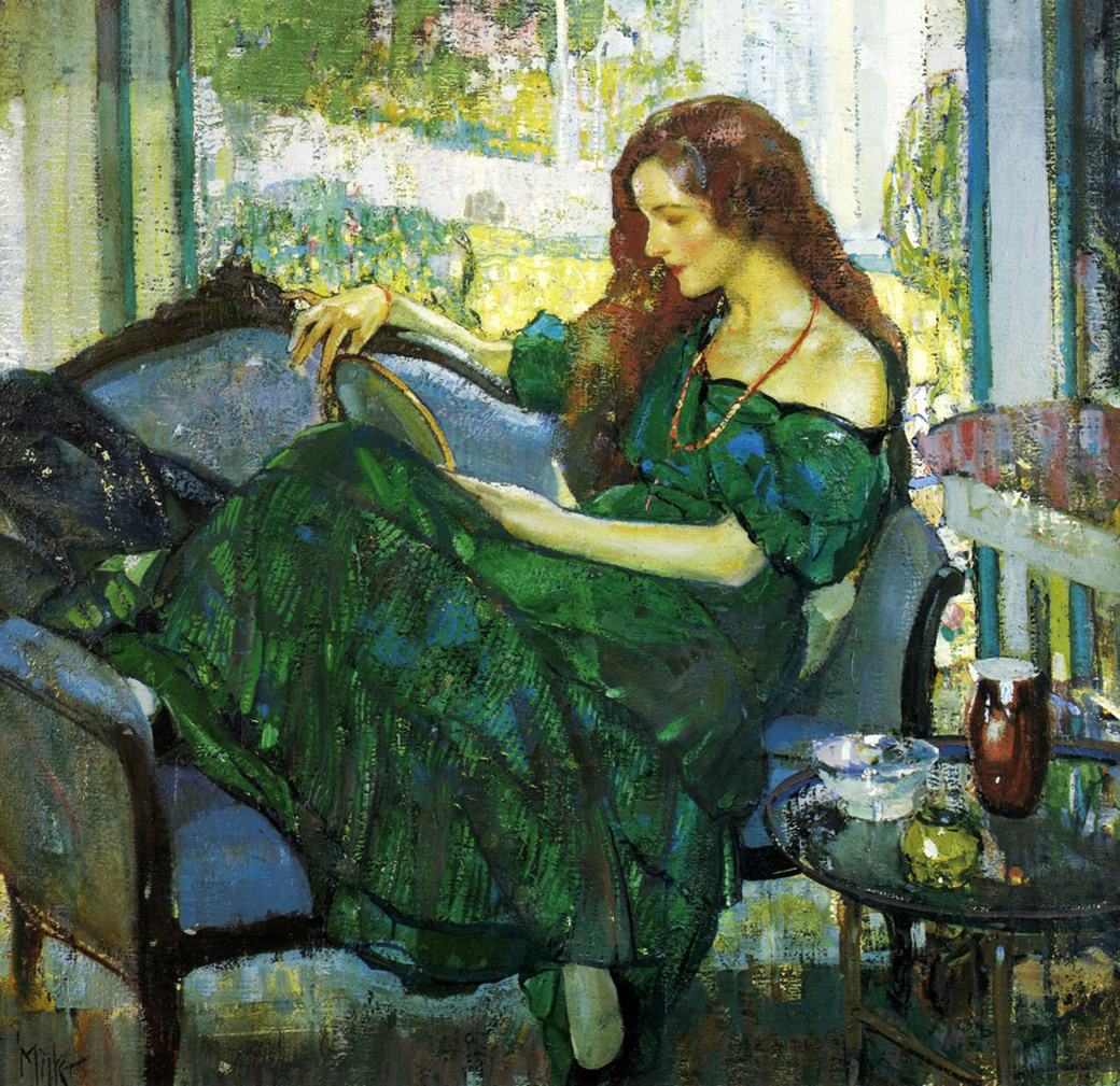 Miss V in green